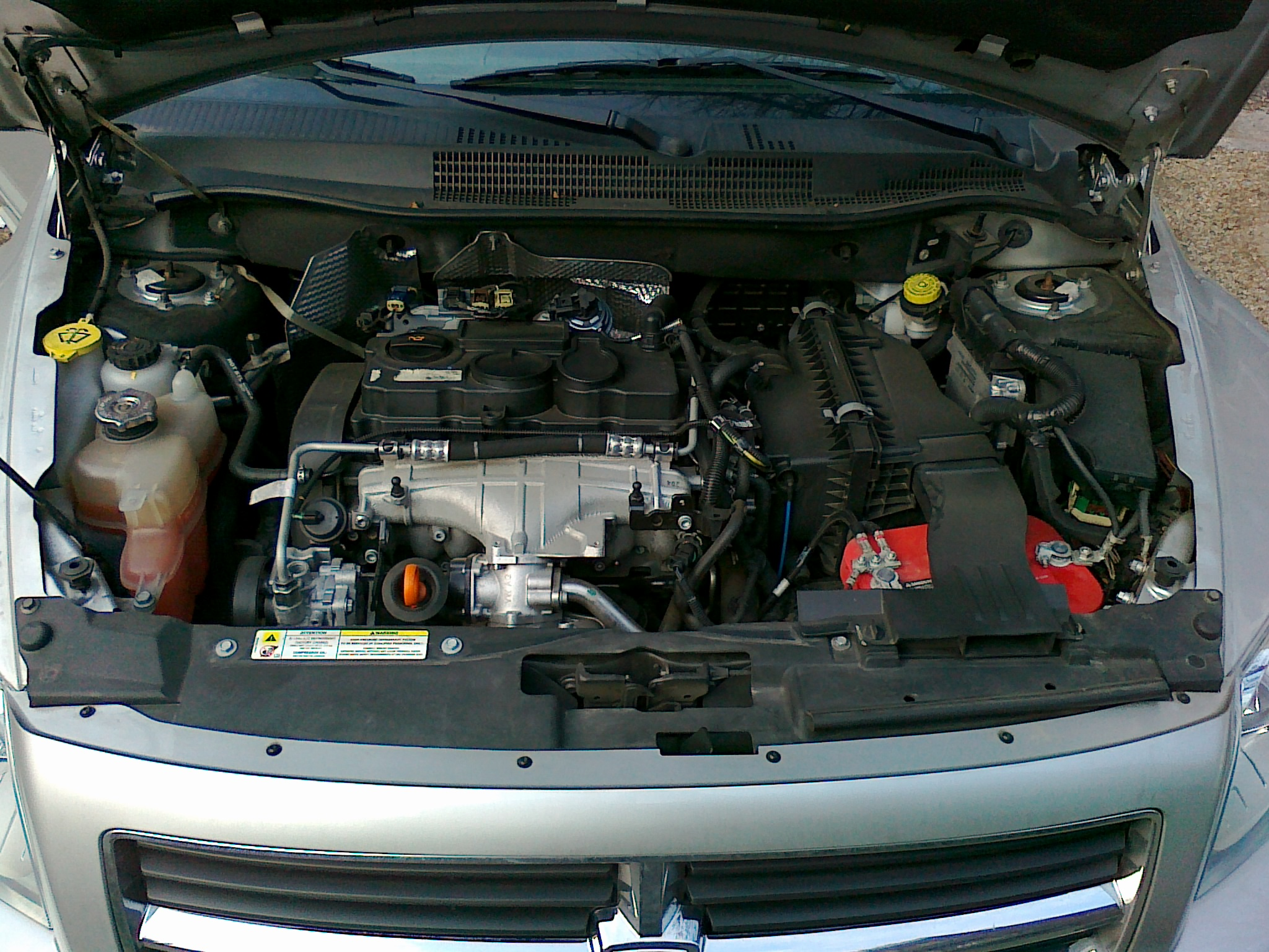 A picture of the VW-built TDI pump-duse diesel engine which powered the Dodge Caliber diesel variant sold in Europe (MY2007)